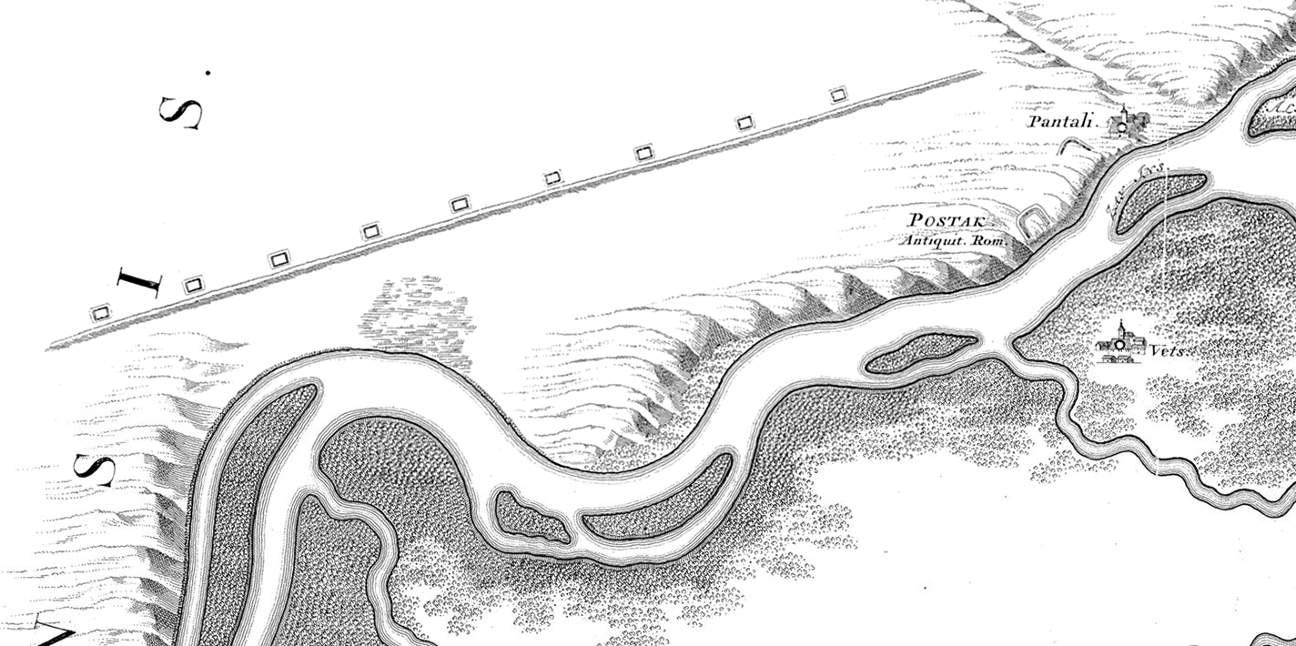 1726 work by the Italian naturalist and soldier Luigi Ferdinando Marsigli (1658 – 1730). It is a natural history encyclopedia of the lower Danube, published in 6 volumes in both The Hague and Amsterdam. The extensive work covers cartography (vol. 1), classical studies (vol. 2), mineralogy (vol. 3), fish fauna (vol. 4), birds (vol. 5) and other subjects (vol. 6). Detailed information by volumes: Volume 1: In tres partes digestus geographicam, astronomicam, hydrographicam contains geographical, astronomical and hydrographical data related to the Danube. Volume 2: De antiquitatibus Romanorum ad ripas Danubii covers Ancient Roman remains by the Danube. Volume 3: De mineralibus circa Danubium effossis reviews minerals in the Danube area. Volume 4: De piscibus in aquis Danubii viventibus discusses the fish of the Danube. Volume 5: De avibus circa aquas Danubii vagantibus, et ipsarum nidis catalogs the birds Marsigli encountered along the Danube. Includes 74 plates after drawings by the Italian artist Raimondo Manzini (1658-1730), including 59 birds and 15 nests with clutches, some of the earliest illustrations of its kind in the history of ornithology Volume 6: De fontibus Danubii. Observationes anatomicae. De Aquis Danubii et Tibisci. Catalogus plantarum. Observationes habitae cum barometris et thermometris. De Insectis covers the springs of the Danube, anatomy, plants, insections and observations on pressure and temperature.